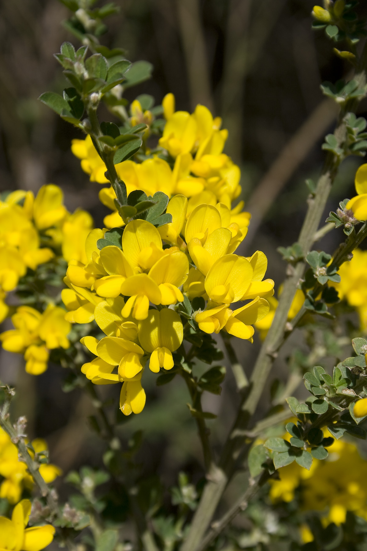 French Broom (Genista monspessulana), found in Oakland, California.